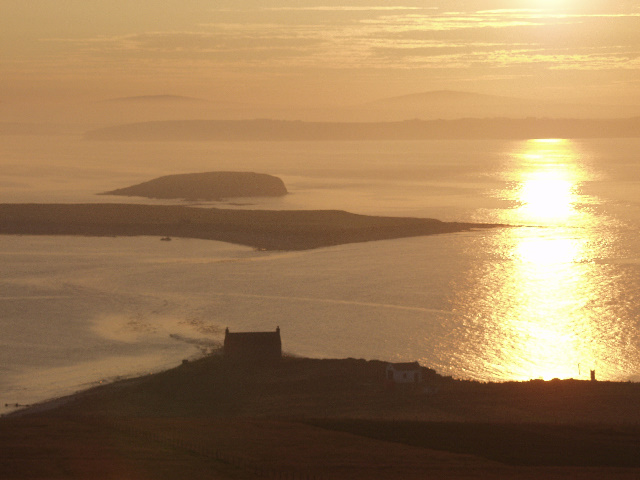 Island of Copinsay and Skerries (Corn Holm). The house in the foreground was the farmhouse in the days the island was inhabited and farmed by one local family; the two islets further away are the "Skerries", connected by a causeway at low tide. The land further in the distance is the Parish of Deerness, on the Mainland of Orkney, and in the extreme distance the two hills are Wideford Hill (HY4111) and Keelylang Hill (HY3710).